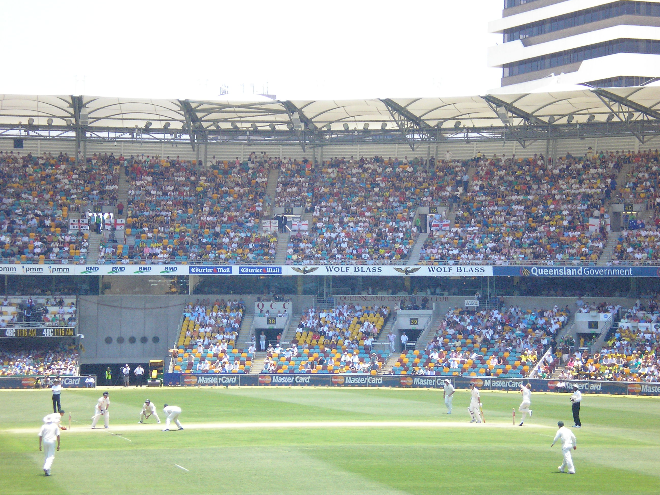 Shane Warne bowling to Ian Bell in the 2006-07 Ashes in Brisbane.